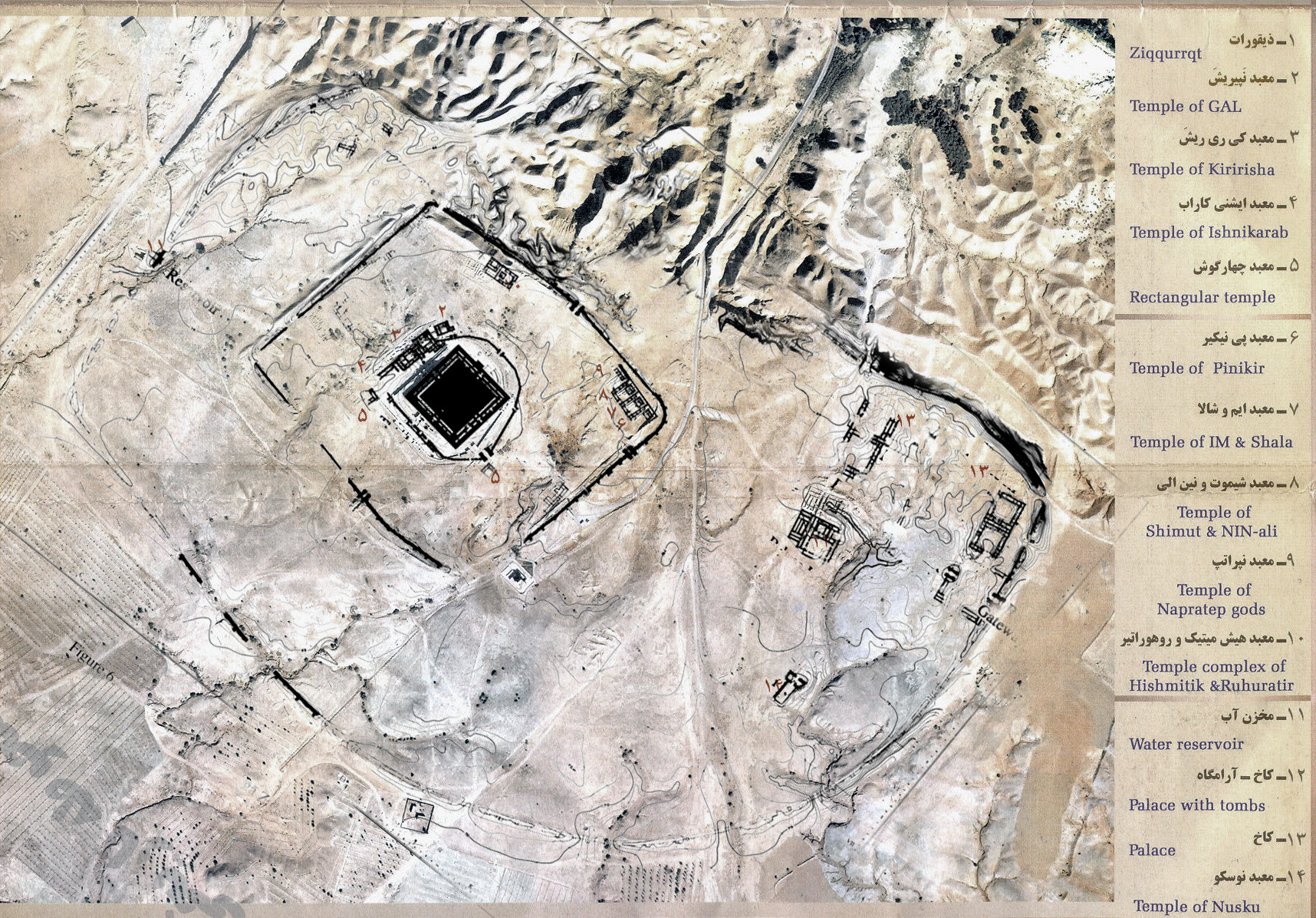 map of Dor Ontash (Choghazanbil) Complex